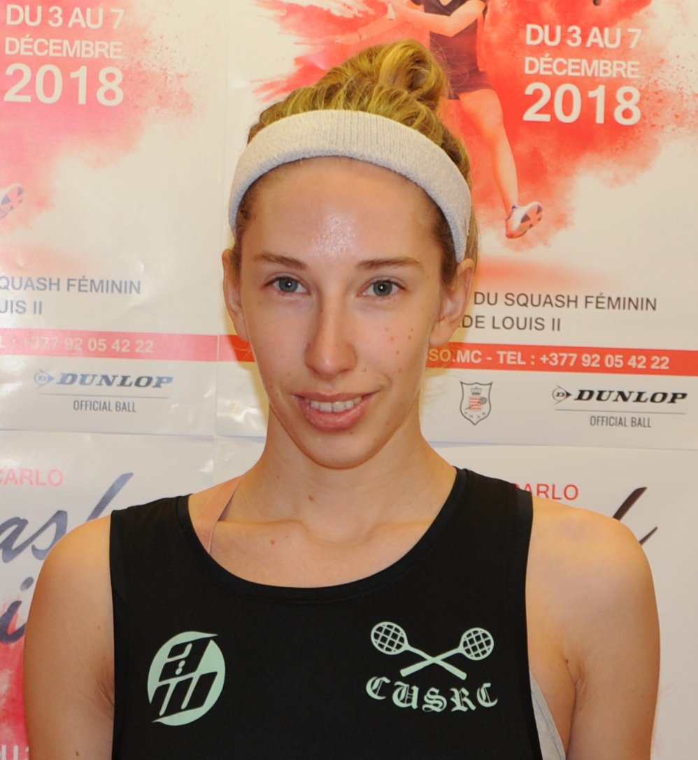 Nia Davis (left) and Ali Loke, Monte-Carlo Squash classic 2018